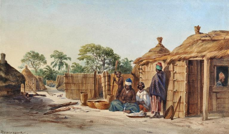 View of a Village Near Dakar